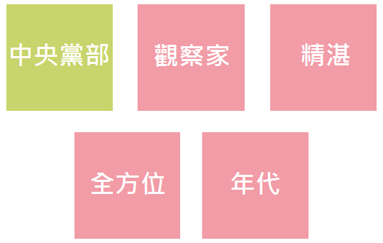 Diagram for the Democratic Progressive Party Primary. Pink marks polling firms in which Tsai's support was the highest, while light green marks polling firms in which Su's support was the highest.